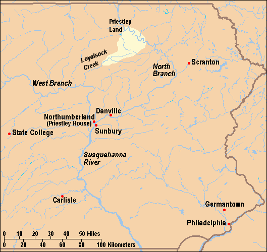 Map of locations mentioned in the Joseph Priestley House article in eastern Pennsylvania, United States. House is in Northumberland, Pennsylvania.